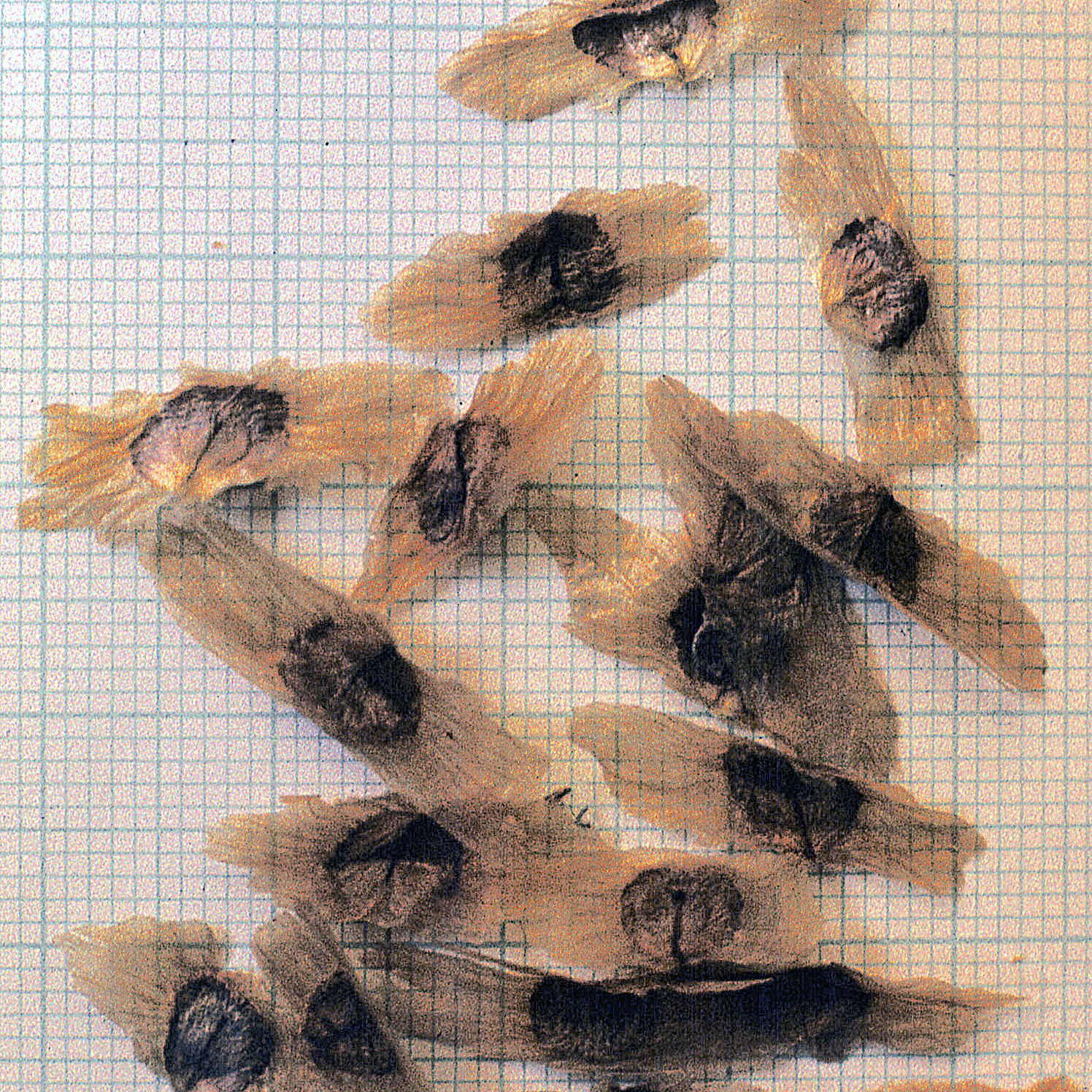 Campsis radicans seeds